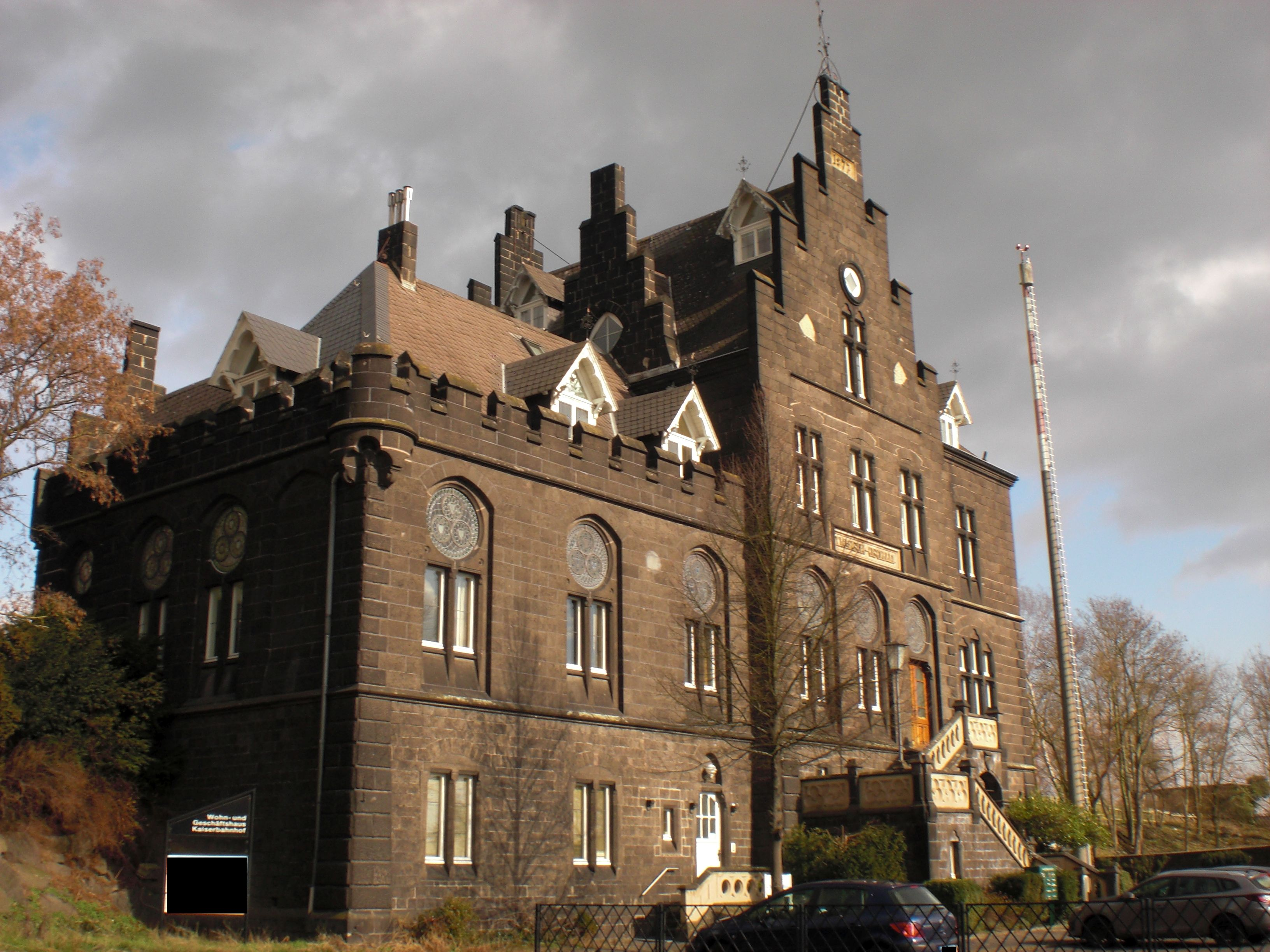 degree of latitude 50.33494274 degree of longitude 50.33494274